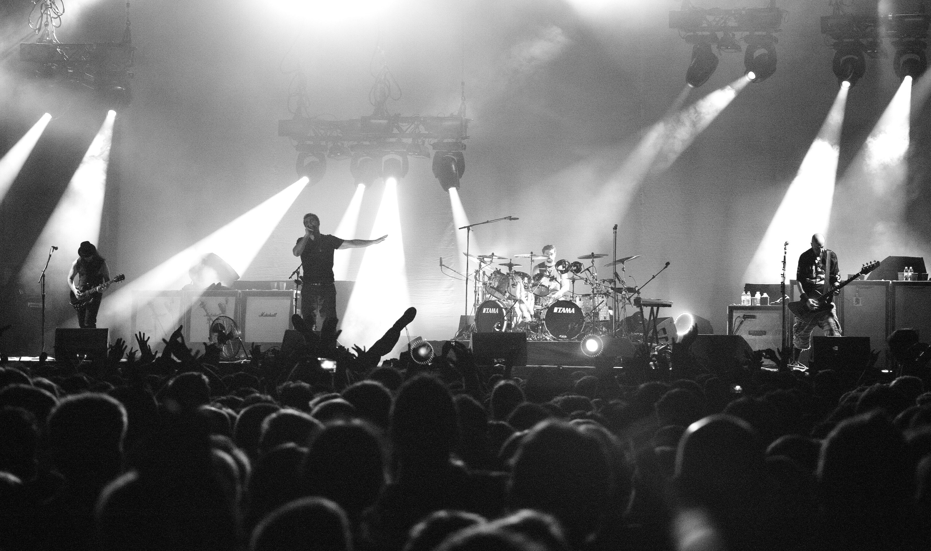 System of a Down during a performance.